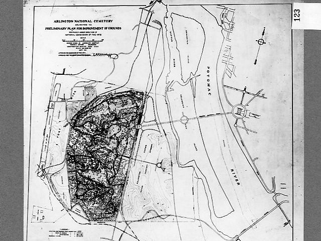 1921 plans for roadway and bridge approaches from Arlington National Cemetery to the proposed Arlington Memorial Bridge, developed by the U.S. Commission of Fine Arts. These plans were later dropped.